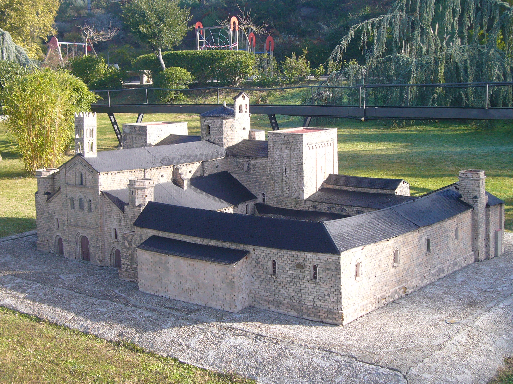 Scale model at the "Catalunya en Miniatura" miniature park : Cathedral of La Seu d'Urgell